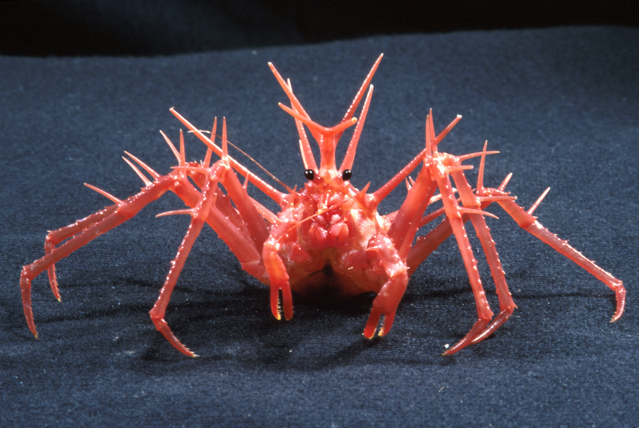 Spiny stone or king crab, Lithodes longispina, a species from underwater seamounts south of Tasmania. Hundreds of new species have been discovered on extinct underwater volcanoes, or seamounts, that rise from the sea floor in the Coral Sea and the Tasman Sea between New Caledonia and Tasmania. Many of these creatures have been isolated on their underwater peaks for millions of years with dramatic implications for their conservation. Seamounts are increasingly being targeted by international deep-water trawling operations. The spread of trawl fisheries for orange roughy, alfonsino, and other deep-water fishes threatens seamount communities worldwide. Picture: Karen Gowlett-Holmes/CSIRO Marine Research.